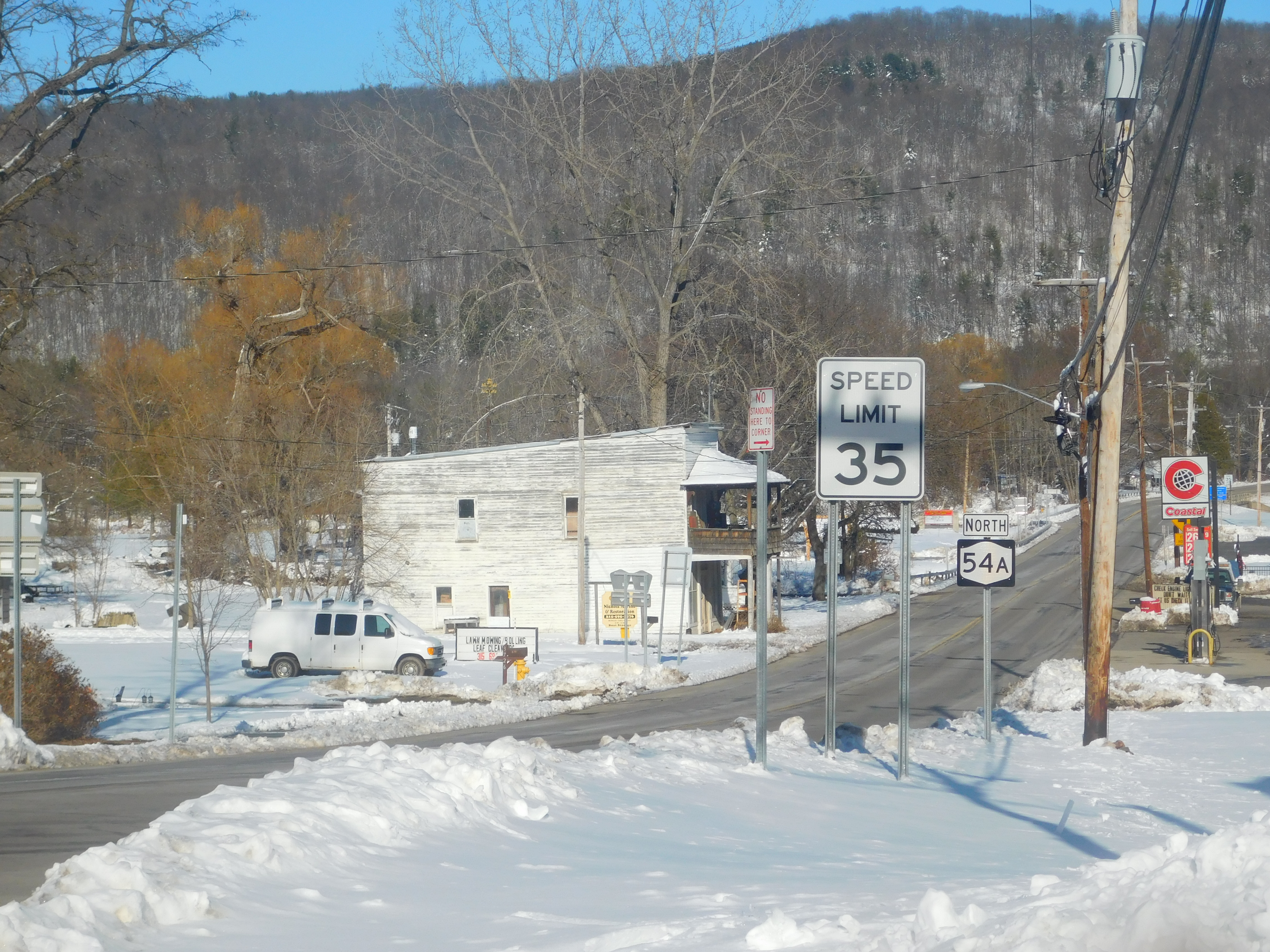 NY 54A in Branchport, New York.